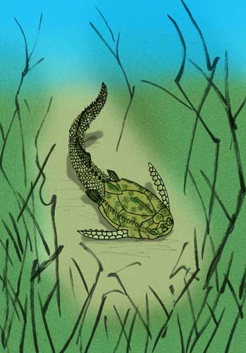 Reconstruction of the basal antiarch placoderm Parayunnanolepis xitunensis from the Lochkovian Epoch-aged Xitun formation of Early Devonian Yunnan, China.